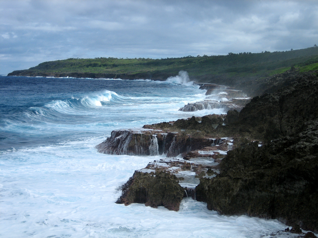 Avatele, Niue. This is where Niue Dive launches its boats for diving